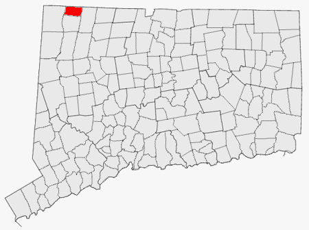 Locator map for North Cannan, Connecticut